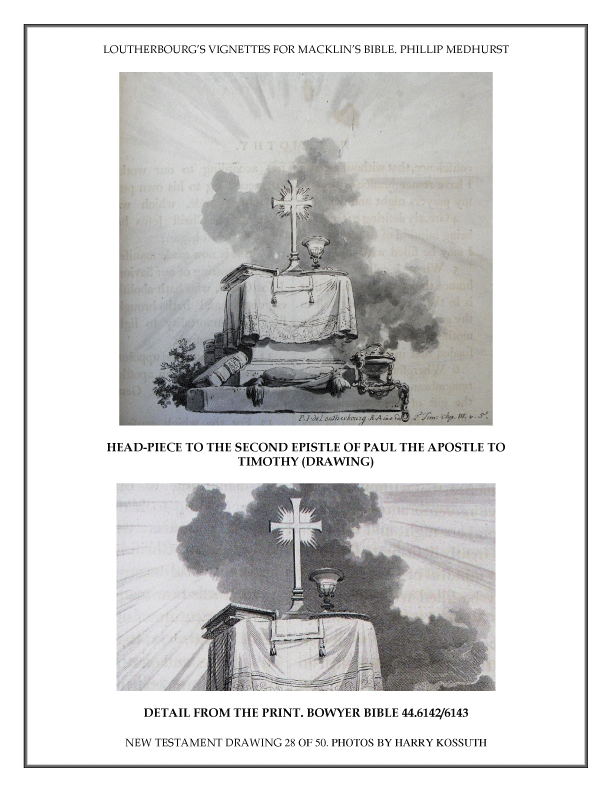 Head-piece to the second epistle of Paul the apostle to Timothy, vignette with an altar and incense burner (2 Timothy 3:5); letterpress in two columns below and on verso. 1800. Inscriptions: Lettered below image with production detail: "P J de Loutherbourg del", "J Heath direx." and publication line: "Pubd. by T Macklin, Fleet Street London". Print made by James Heath. Dimensions: height: 490 millimetres (sheet); width: 390 millimetres (sheet).